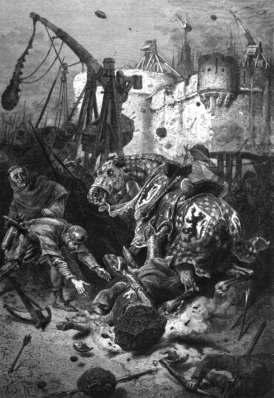 The Death of Simon de Montfort at the siege of Toulouse (25 June 1218)